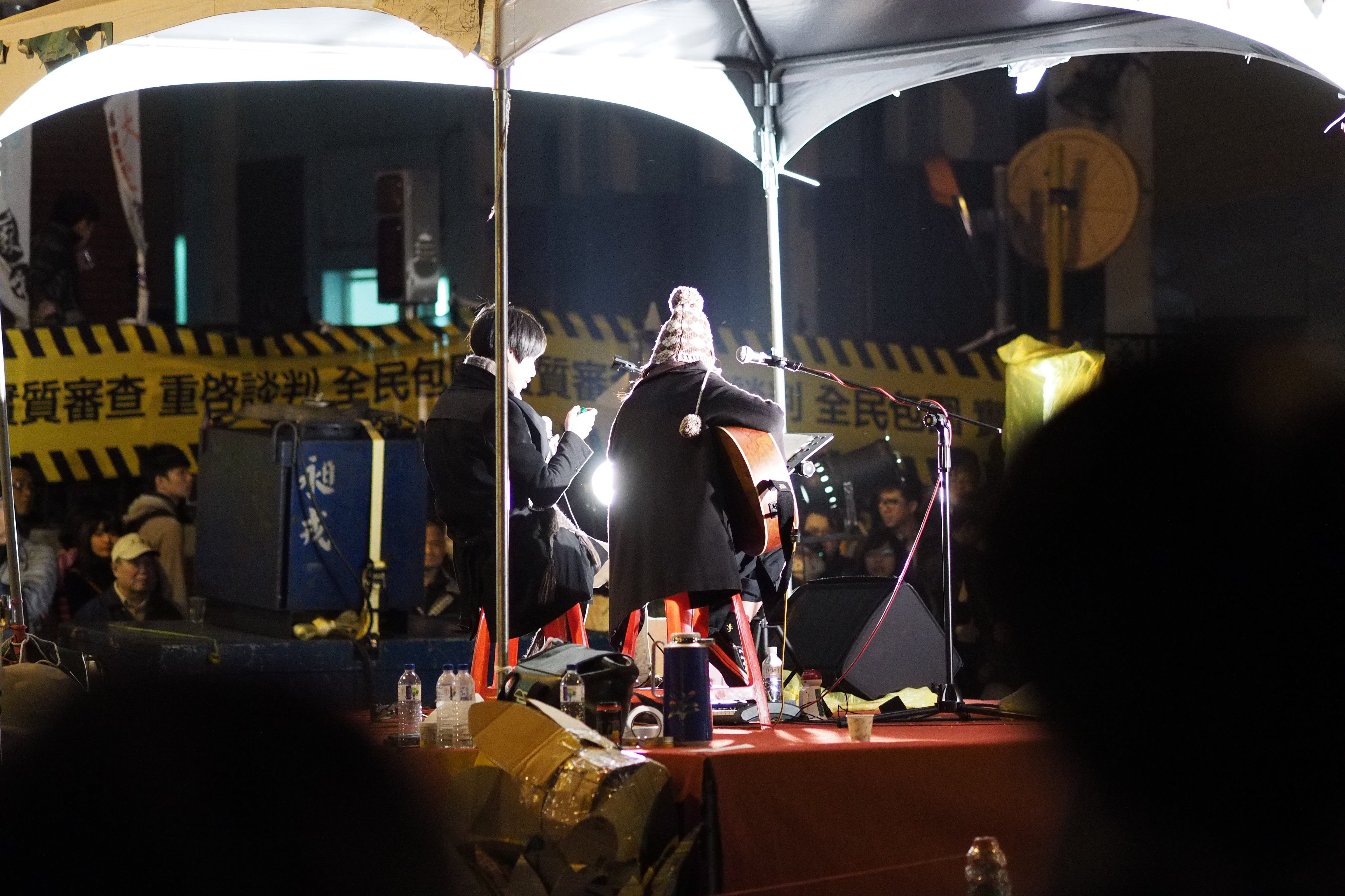 CongressOccupied #佔領立法院 #太陽花學運 太陽花學運